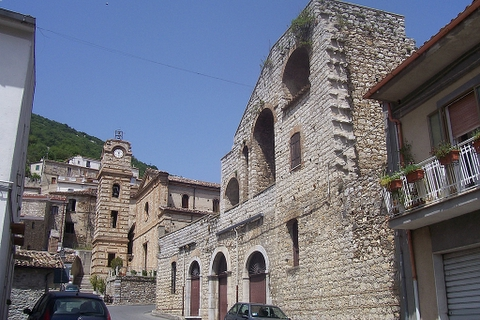 San Pietro church with observatory at Cerchiara di Calabria (Italy)